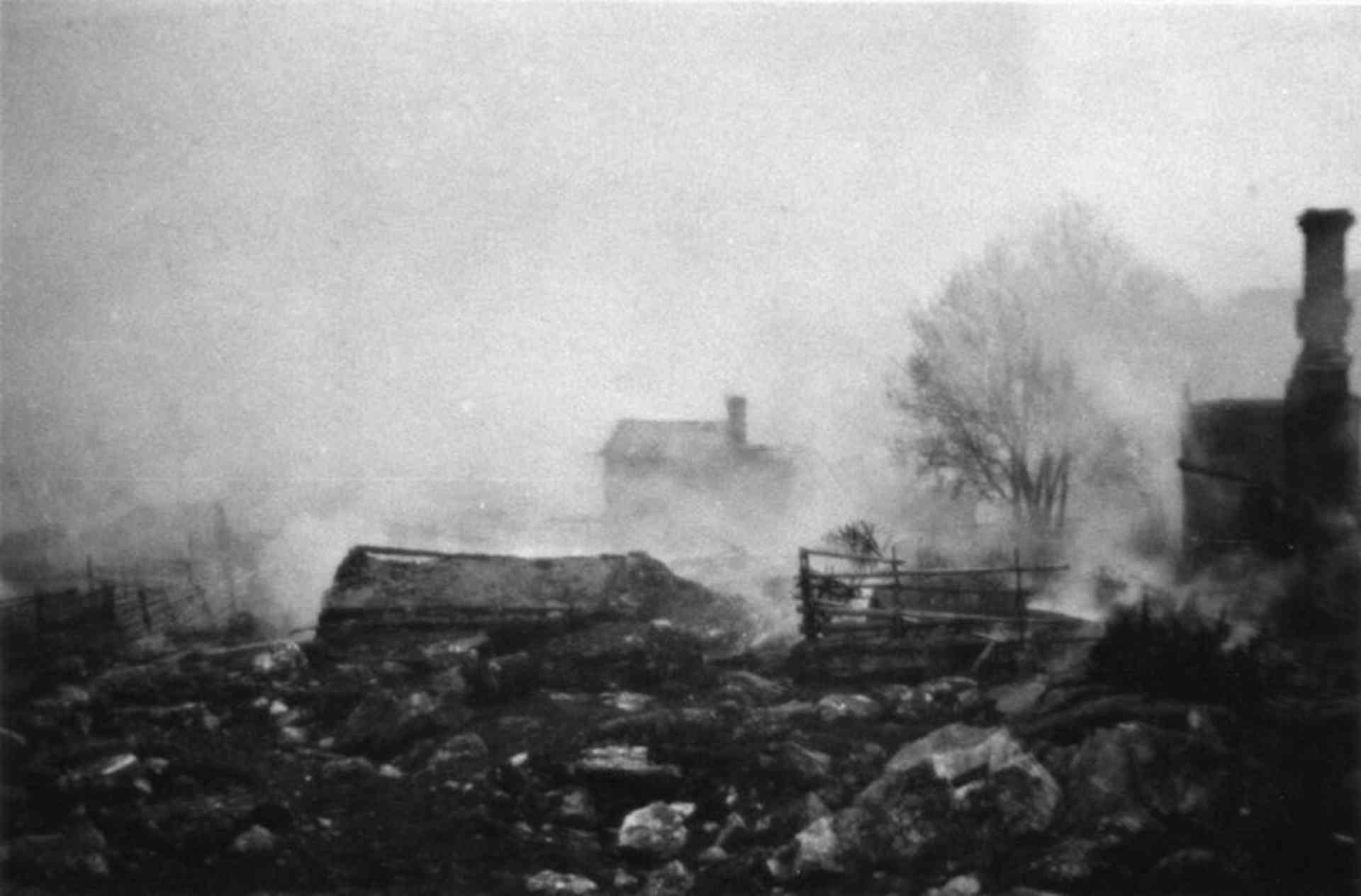 Harjunpää village in Ulvila, Finland after the 1920 fire.